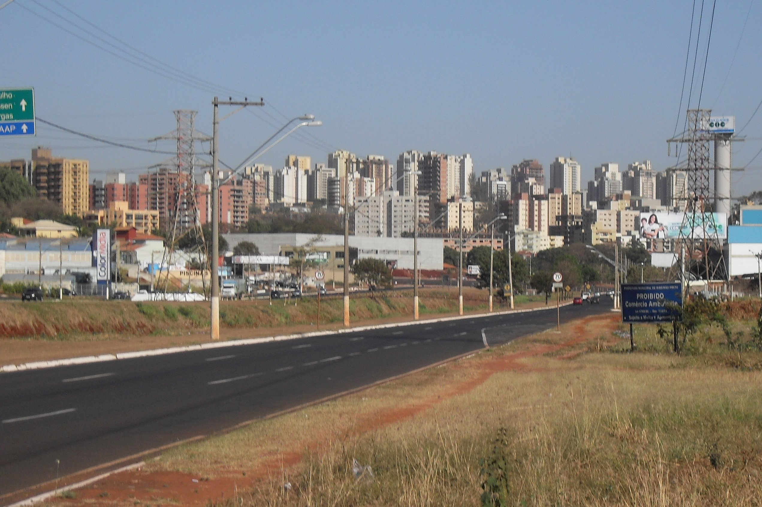 Ribeirao Preto in Brazil seen from the east